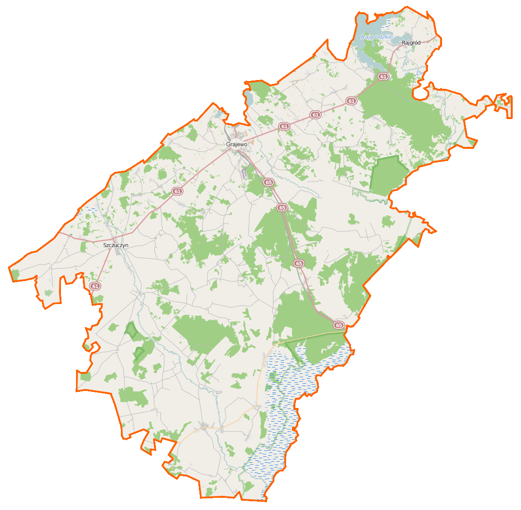 Map of Powiat grajewski, Poland This map of Powiat grajewski was created from OpenStreetMap project data, collected by the community. This map may be incomplete, and may contain errors. Don't rely solely on it for navigation.